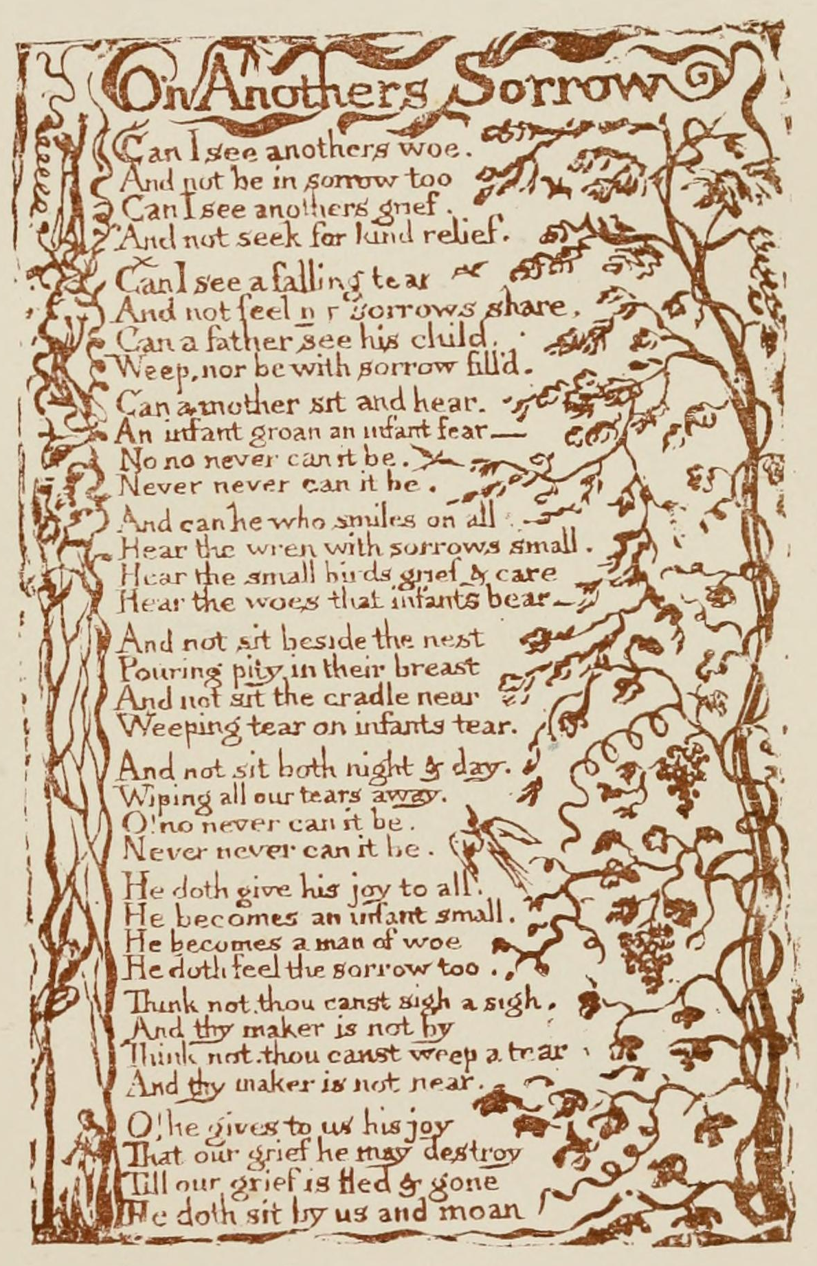 A page from scan of book containing a series of series of reproductions a work, Songs of Innocence and Experience by a poet and painter, William Blake